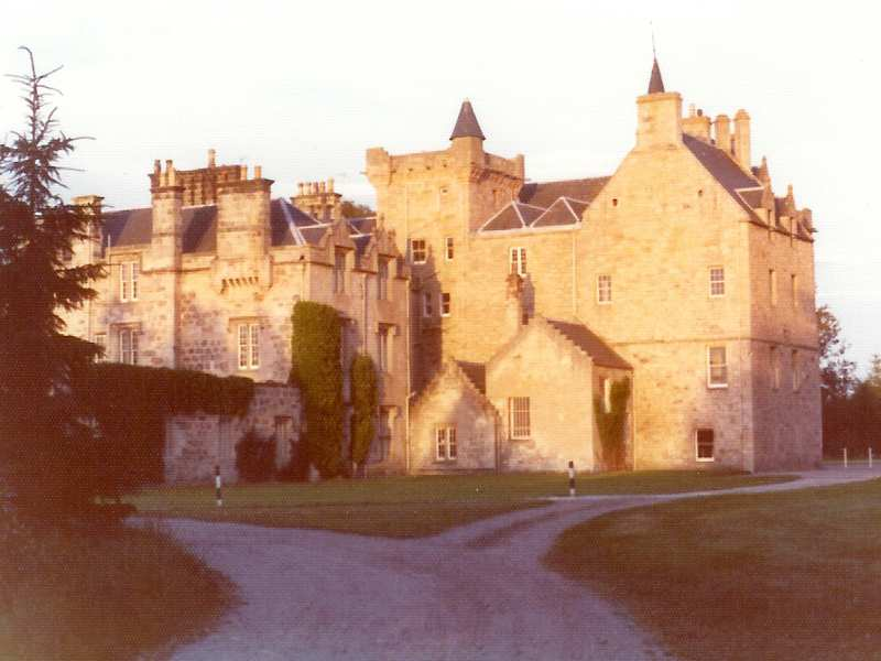 Alexander Brodie, Brodie Castle